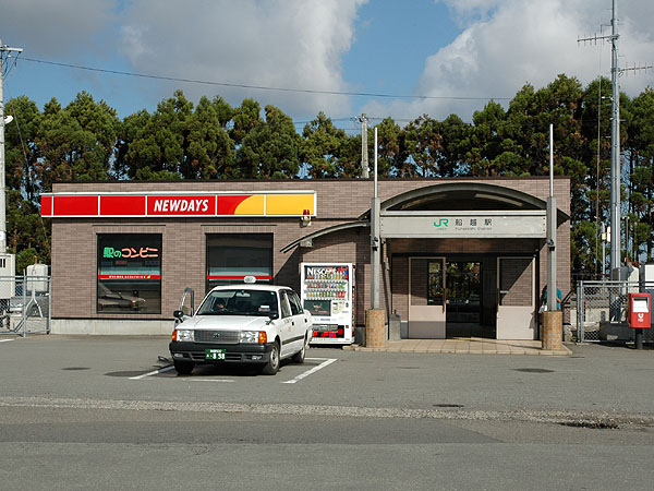 Funakoshi Station, on the JR Oga Line, Oga, Akita, Japan